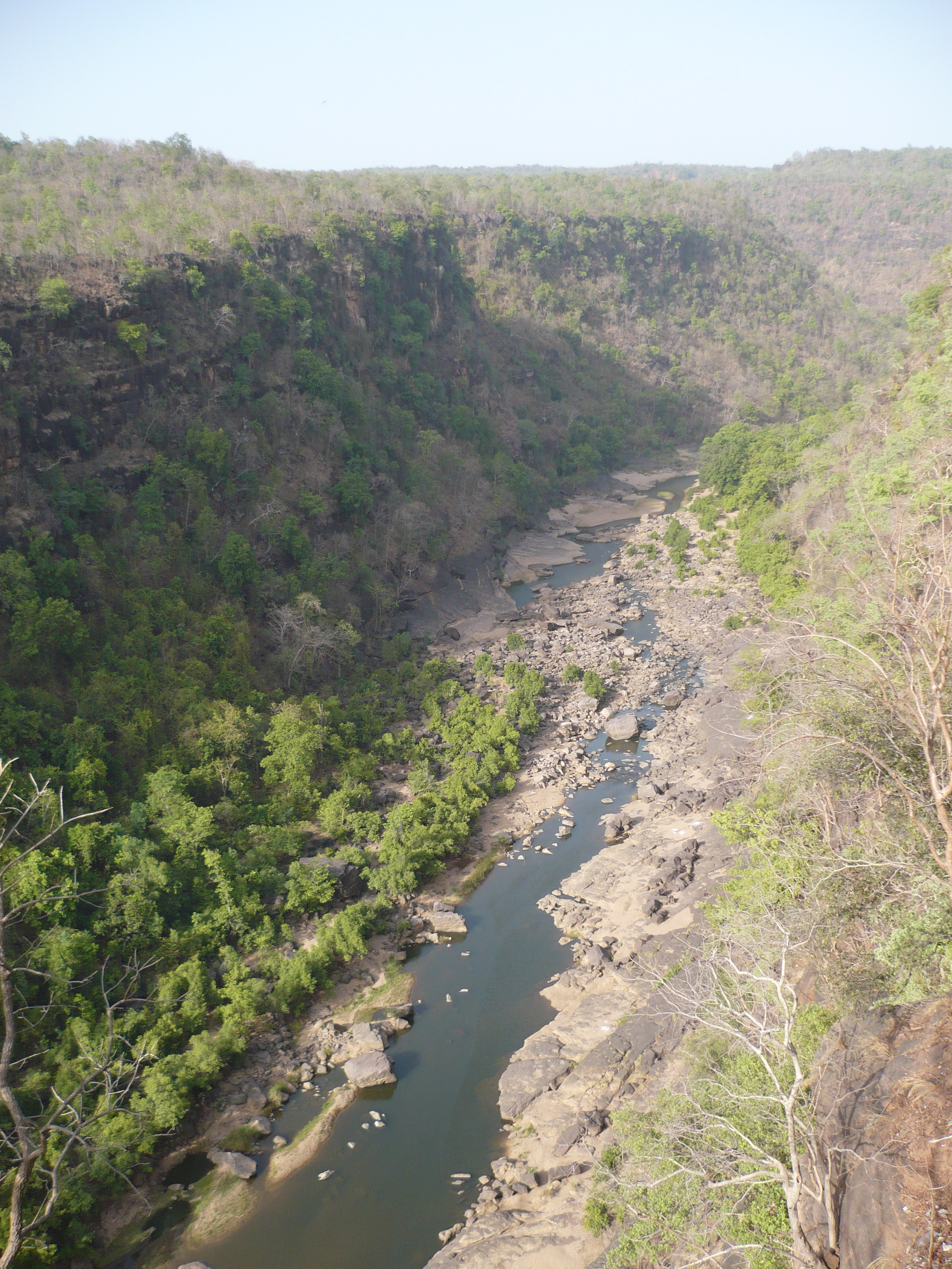 Picturesque view of Denwa river.